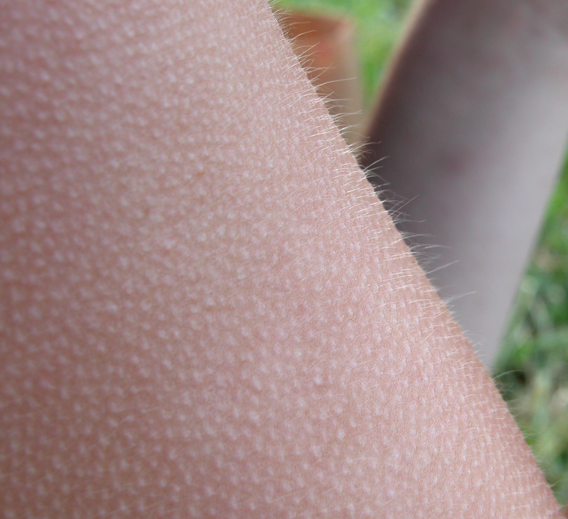 Goose bumps on my sister's arm.